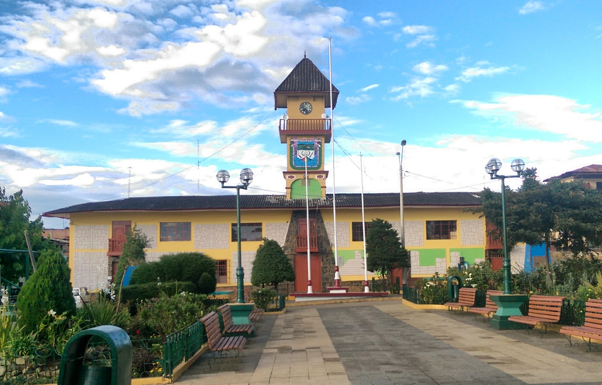 The municipality of Ayabaca, Department of Piura, Peru with its characteristic clock tower.